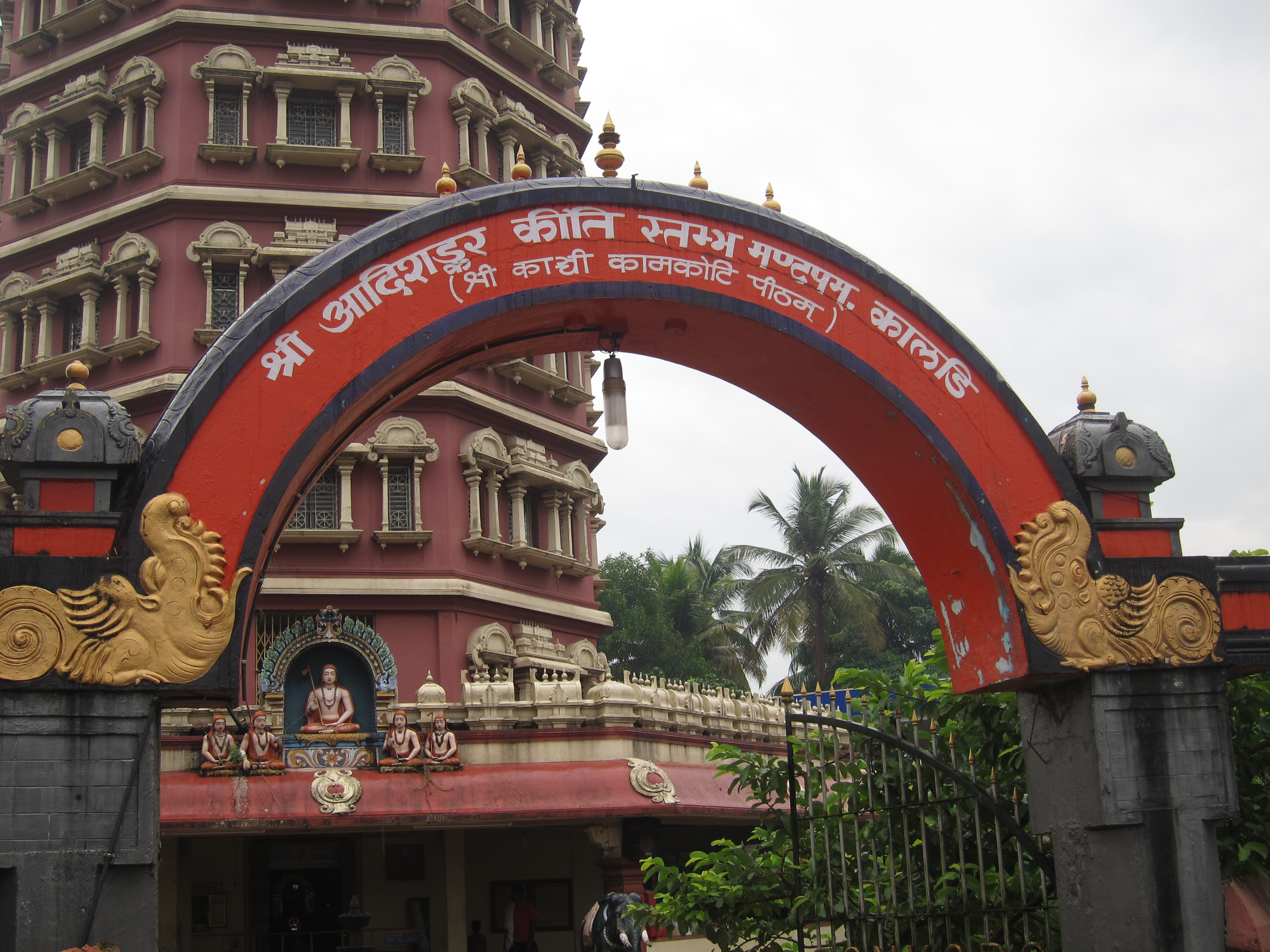 Kalady Sri Sankara Tower Opposite to Kalady Bus Stand Ankamali-Perumbavoor Road Ernakulam District 6 k.m away from Ankamali 6 k.m away from Nedumbassery (Kochi) Airport